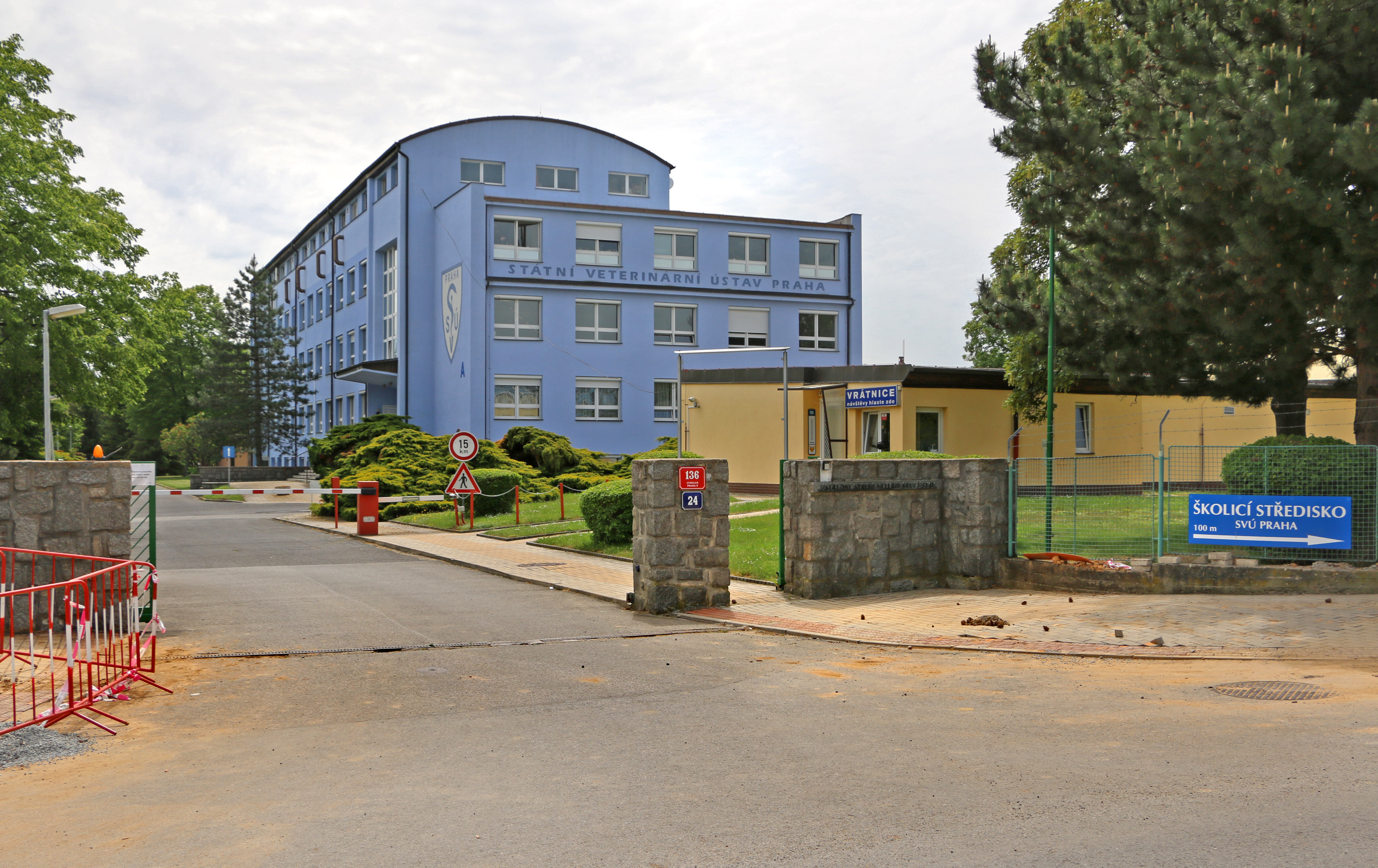 Sídlištní street, State veterinary institute, Prague.